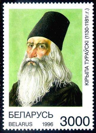 Stamp of Belarus